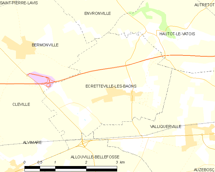 Map of French municipality Écretteville-lès-Baons